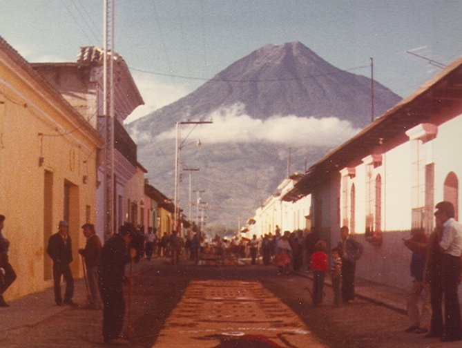 Volcán de Agua ("Volcano of Water"), Guatemala, seen from Antigua Guatemala, with temporary street carpeting for Easter celebrations in foreground. Photo by Infrogmation, 1980.